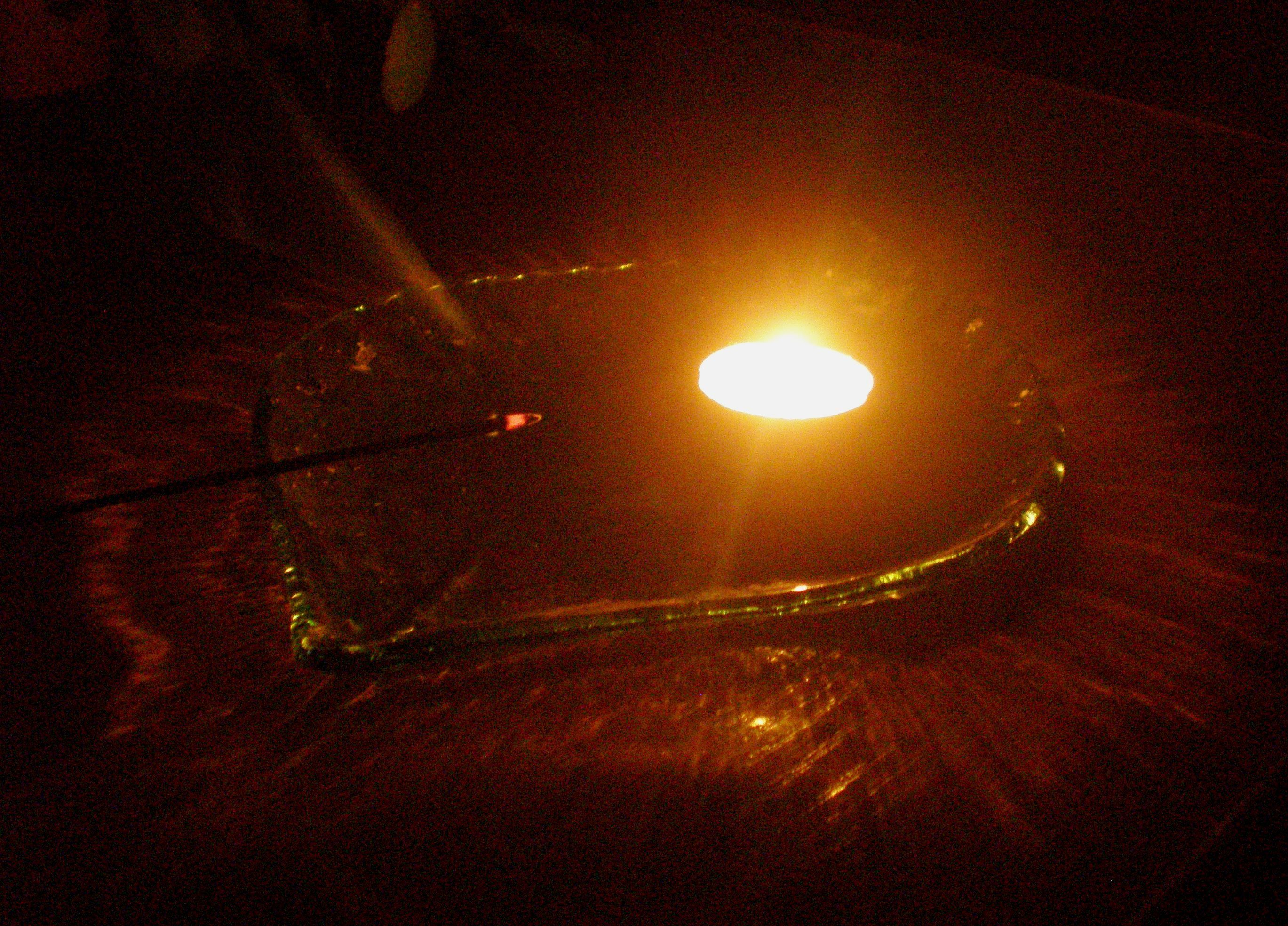 Joss stick and a candle